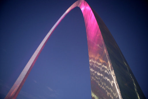 The Gateway Arch in St. Louis was illuminated in pink in honor of Breast Cancer Awareness Month during the Arch Lighting for Breast Cancer Awareness Thursday, Oct. 12, 2006. Mrs. Laura Bush delivered remarks and met with the audience members during the event. White House photo by Shealah Craighead